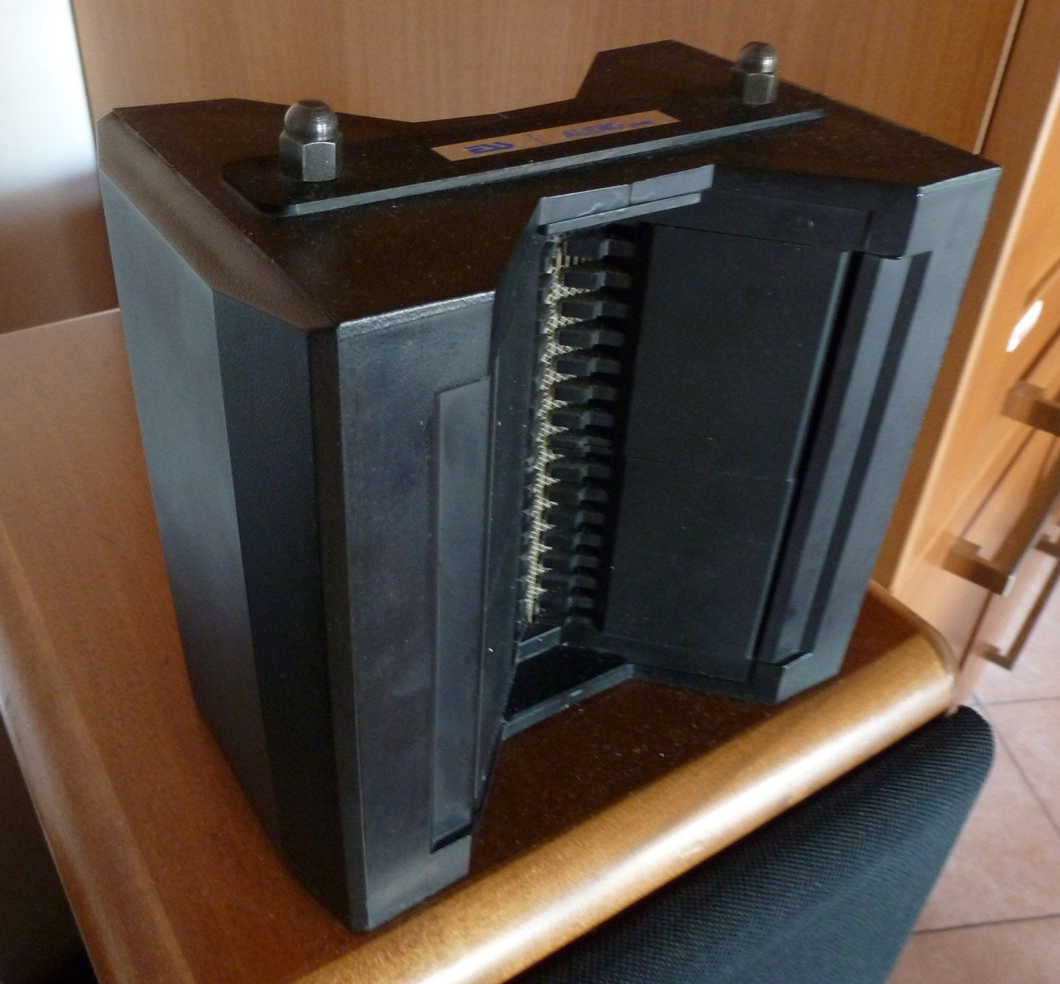 Air Motion Transformer, Great Heil version.